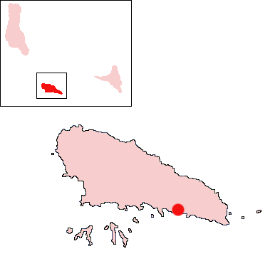 Sambia, Mohéli, Comoros Location Map; created with the GIMP. Made by User:Acntx.